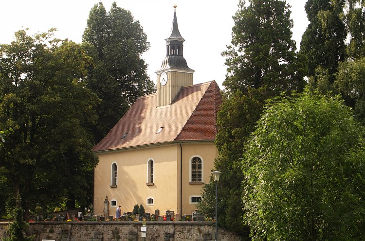 Church Lückendorf, Saxony, Germany